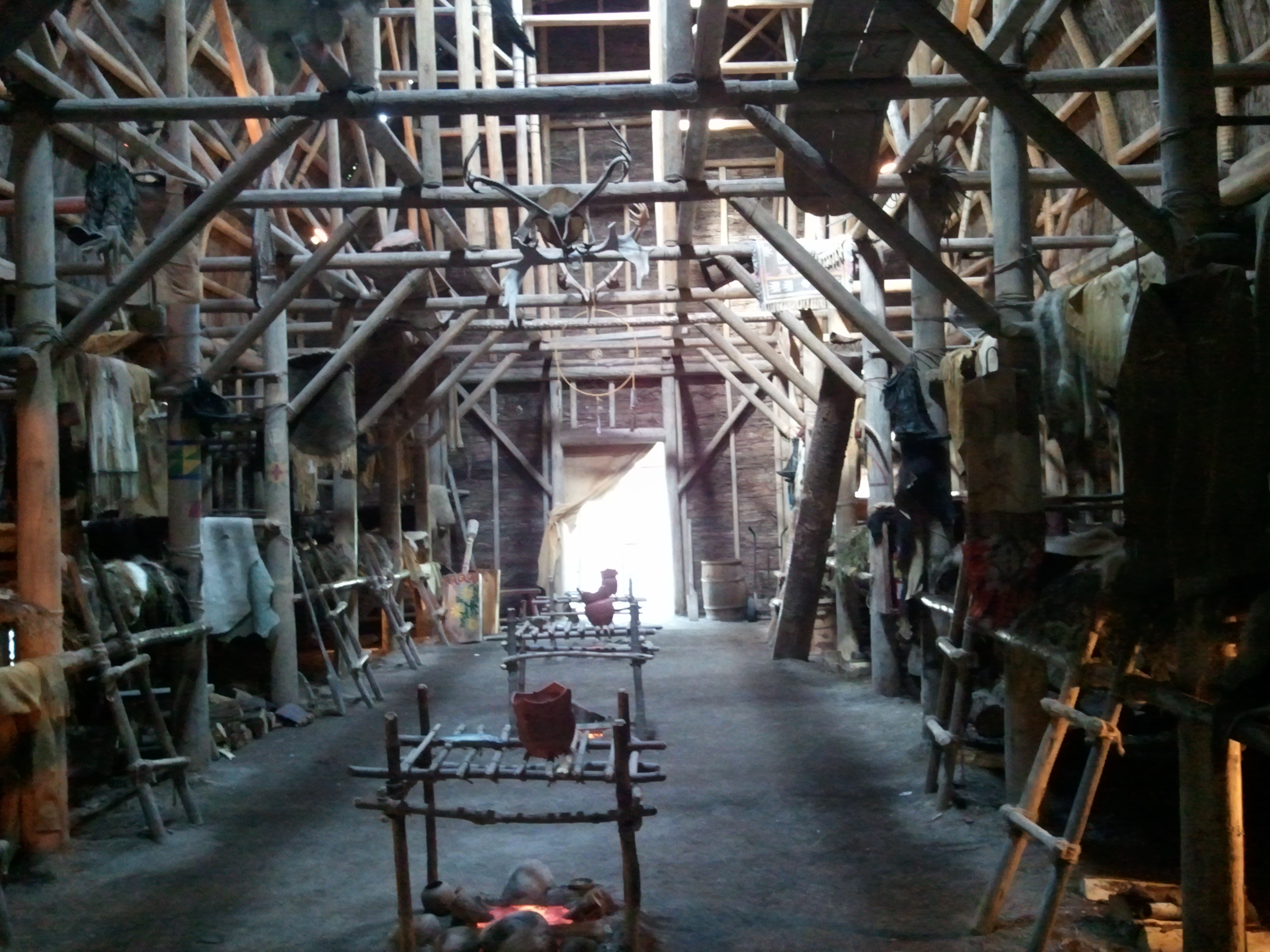 Reconstructed Huron Wendat long house at Huron Wendat Museum in Wendake Quebec take July 2012